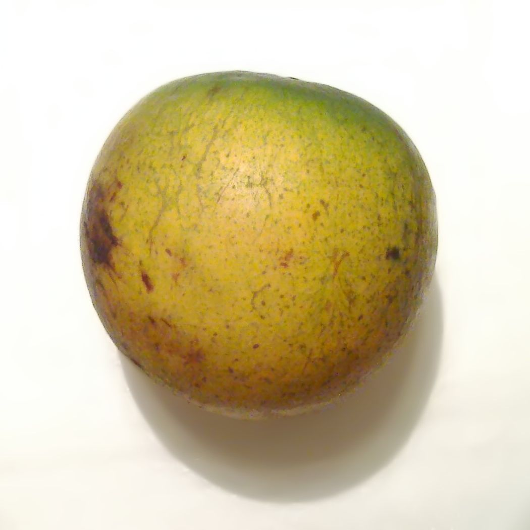 This ripe Abiu fruit is yellow with green speckles and smooth, rounded shape.